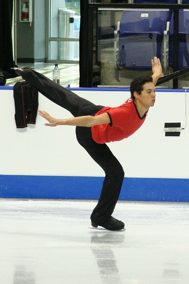 Jamal Othman lands a jump at the 2006 Skate Canada International.